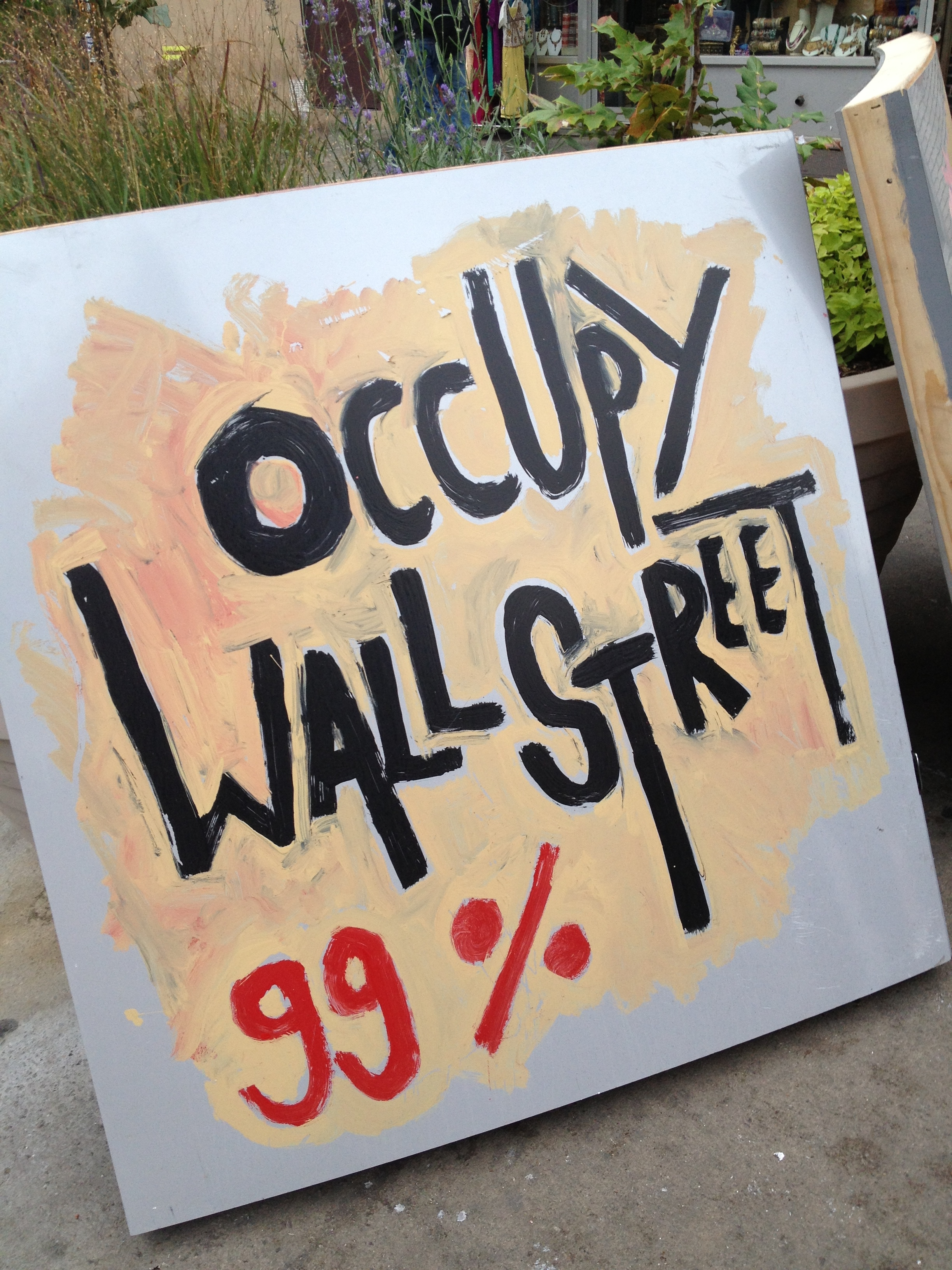 Occupy Wall Street sign in Queens, NYC